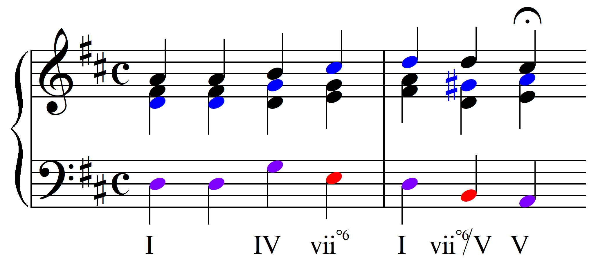 Example of leading-tone triad (viio) and secondary leading-tone triad in Johann Sebastian Bach's Chorale: Gott der Vater wohn' uns bei (BWV 317). Identified by Forte (1979) ISBN 0-03-020756-8 as BWV 748, which is currently attributed to Johann Gottfried Walther. Bass notes are red. Root notess are blue. Bass notes which are also roots are purple.